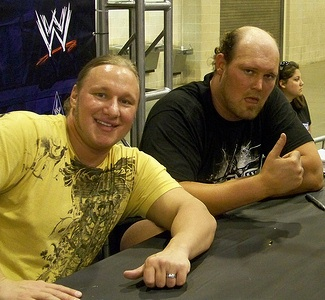 A cropped version of File:Jesse and Festus with a fan.jpg to show only professional wrestlers Ray Gordy (Jesse) and Drew Hankinson (Festus).